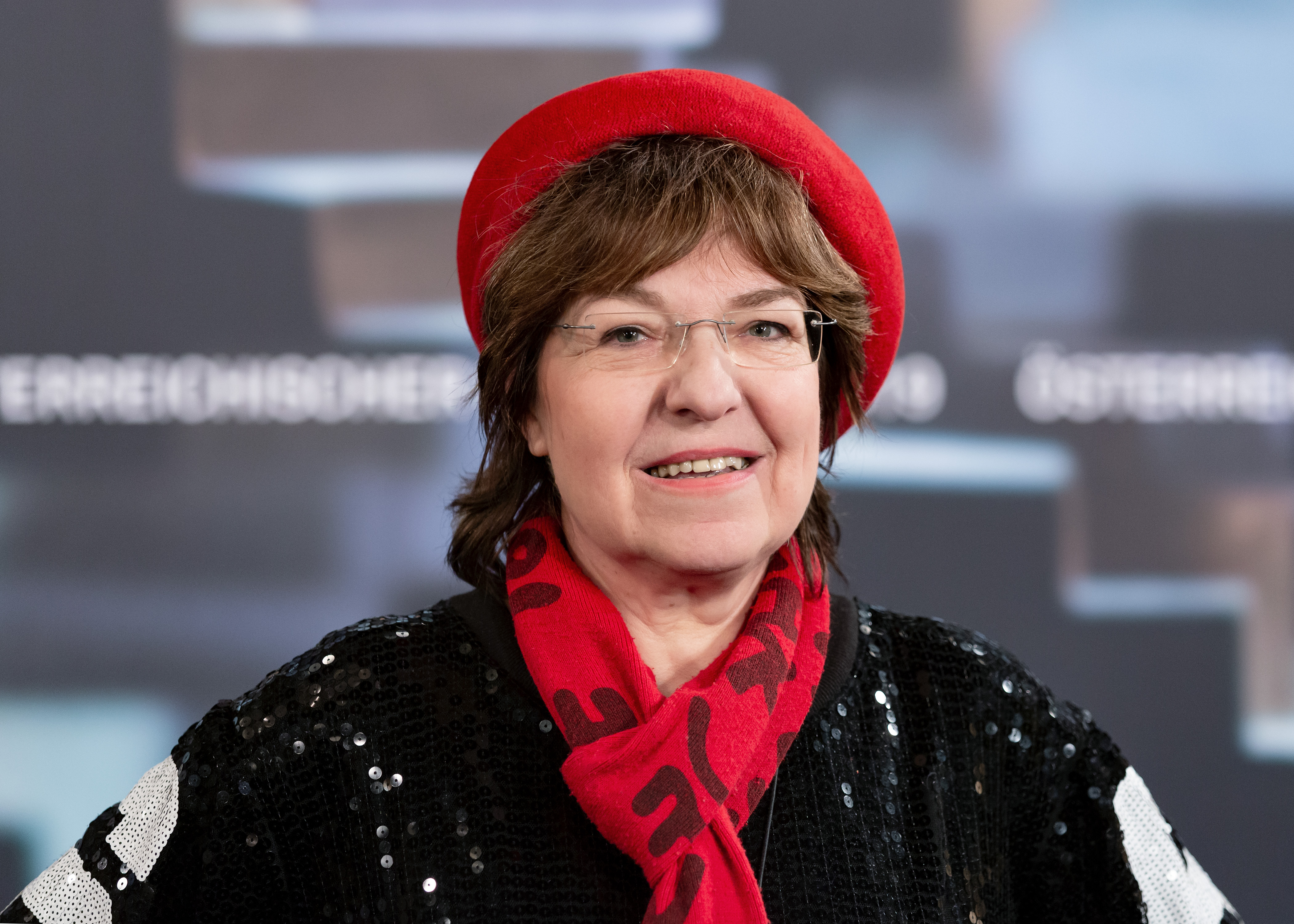 Bady Minck (production of "Angelo" and "Styx"), photo call at the Austrian Film Awards 2019 (Rathaus, Vienna,Austria).